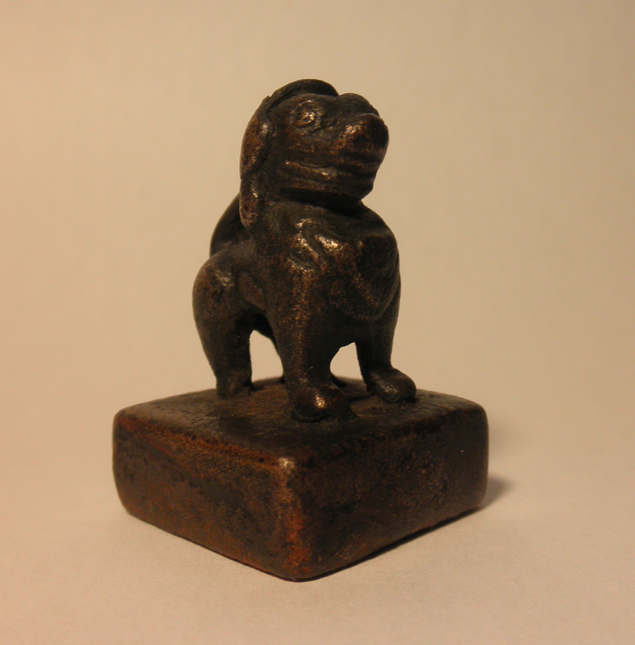 Itoin_a Japanese old seal;elephant as for imperial guardian lion.